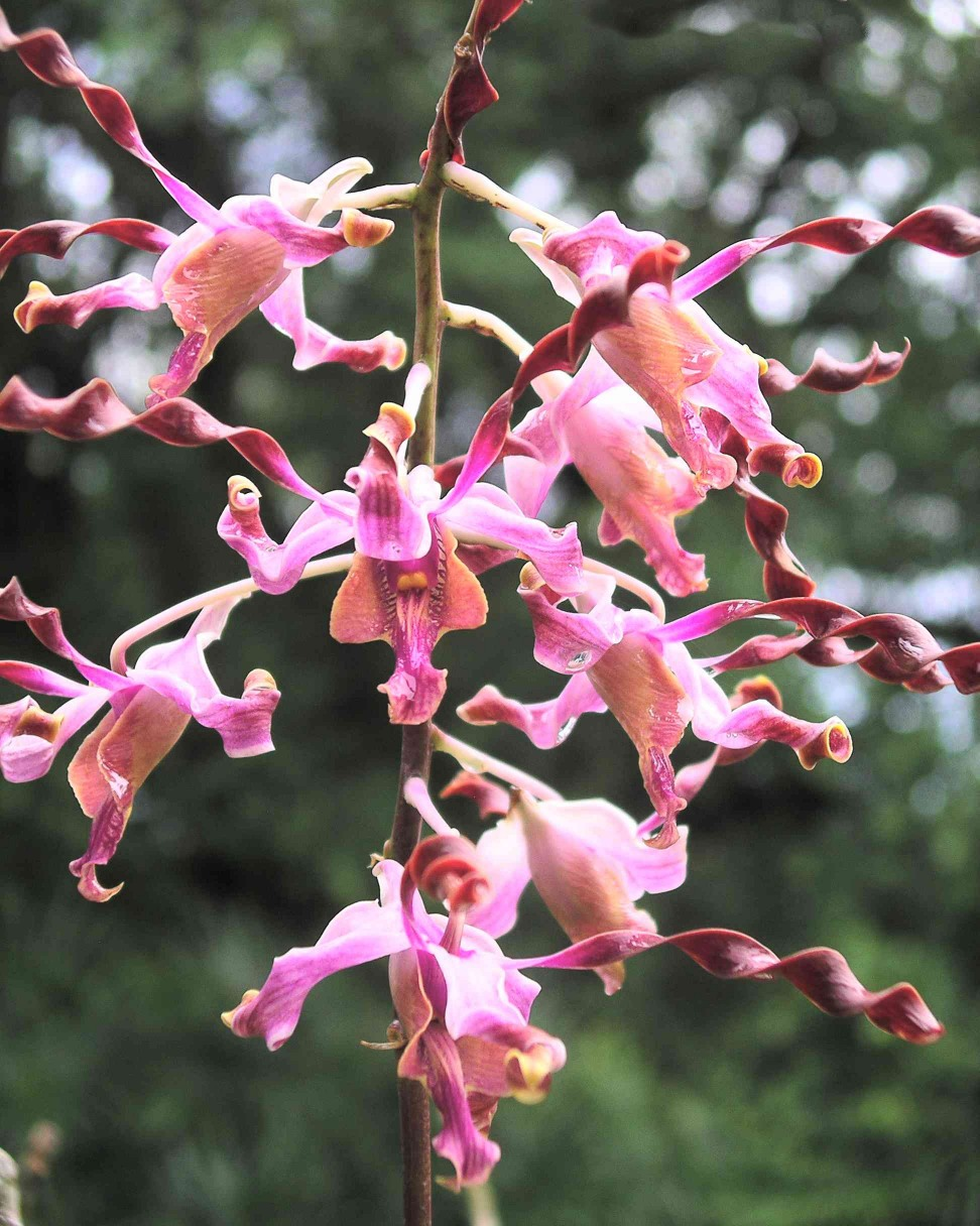 The orchid Dendrobium Margaret Thatcher at the National Orchid Garden, Singapore Botanic Gardens. Photographed with a Pentax Optio 555 digital camera, 1/100s @ f3.6.